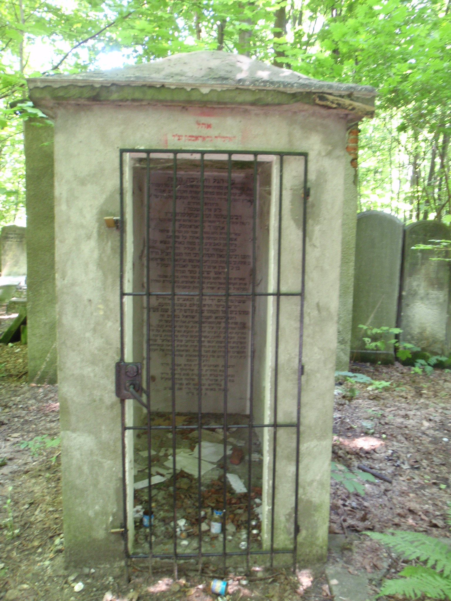 Ohel of Salomon Henoch Rabinowicz tzadik from Radomsko